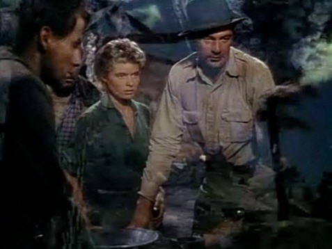 Ingrid Bergman and Gary Cooper in For Whom the Bell Tolls - trailer (screenshot)